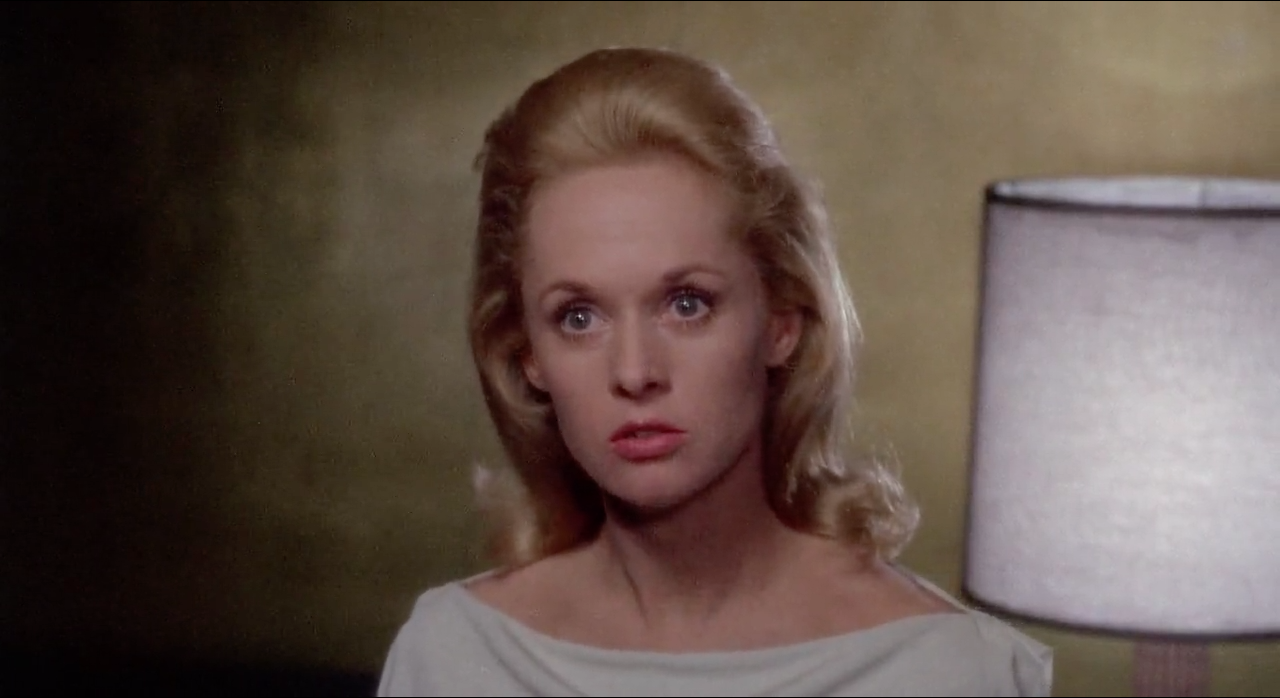 Tippi Hedren in Hitchcock's "Marnie" trailer.